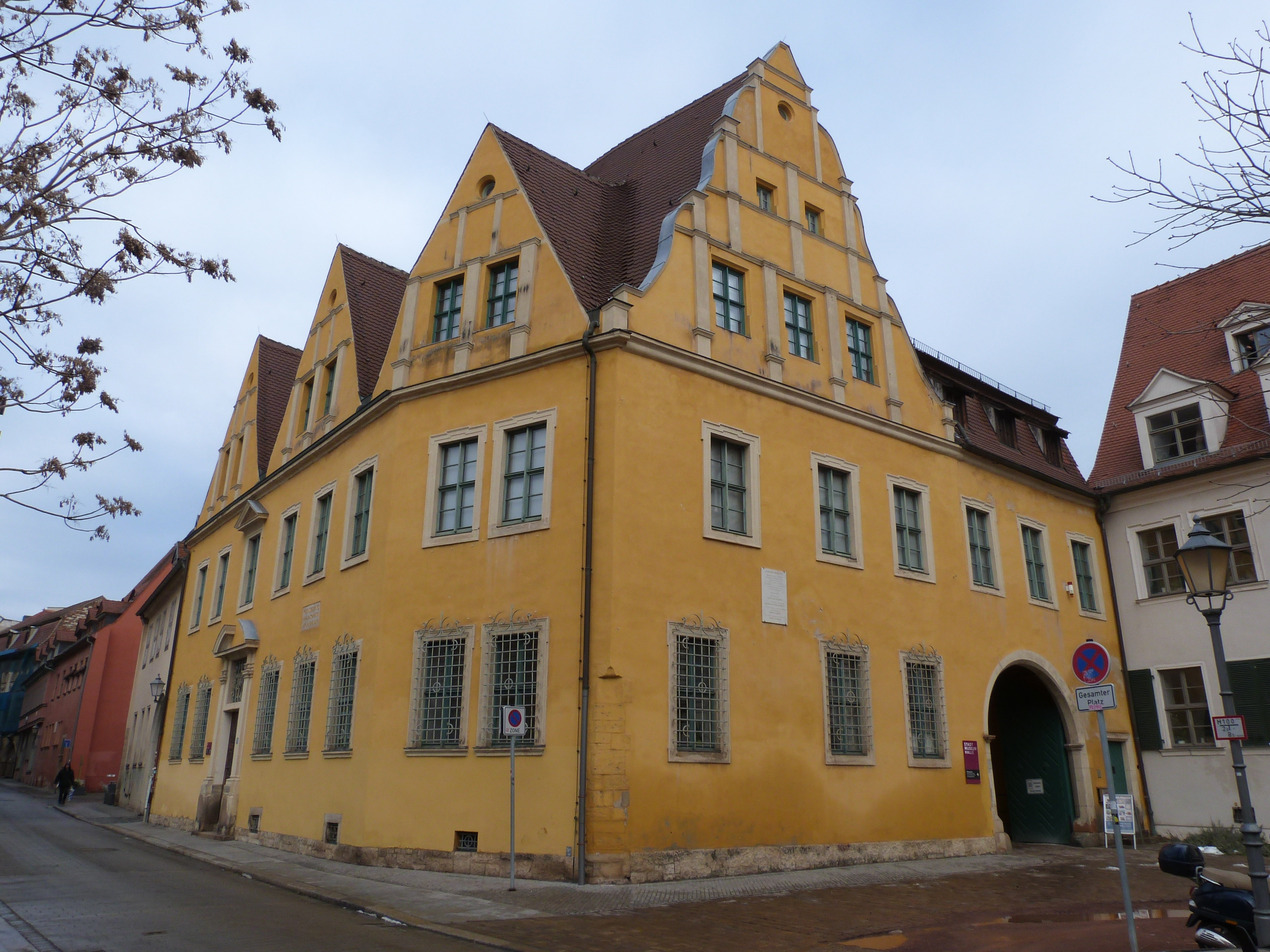 House of Christian Wolff (city Museum), Große Märkerstraße No. 10, Halle (Saale)